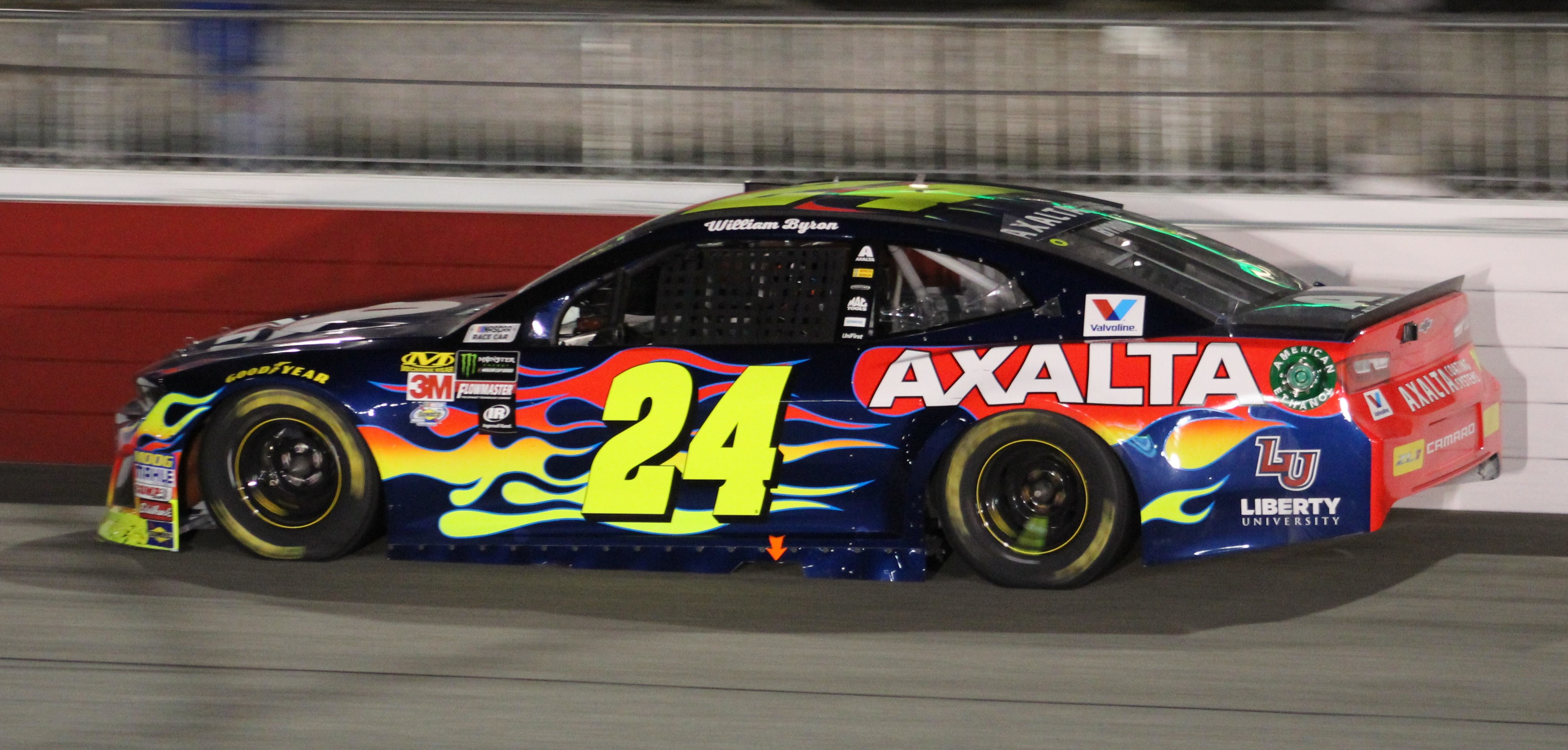 William Byron's No. 24 Axalta Chevrolet at Richmond Raceway in 2018